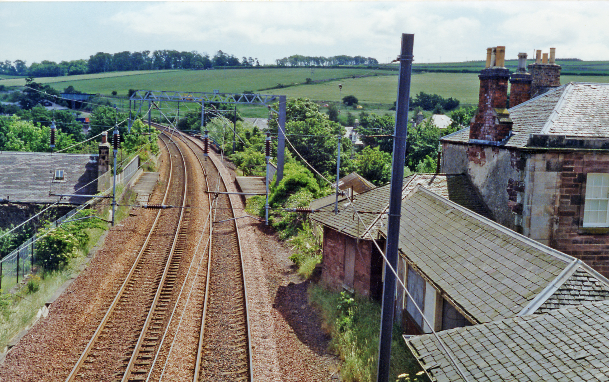 East Coast Main Line at East Linton, 1997. View eastward, towards Berwick-upon-Tweed: ex-NBR Edinburgh - Berwick section of the ECML. The station - mainly behind the camera - was closed to passengers 4/5/64, to goods 26/1/65